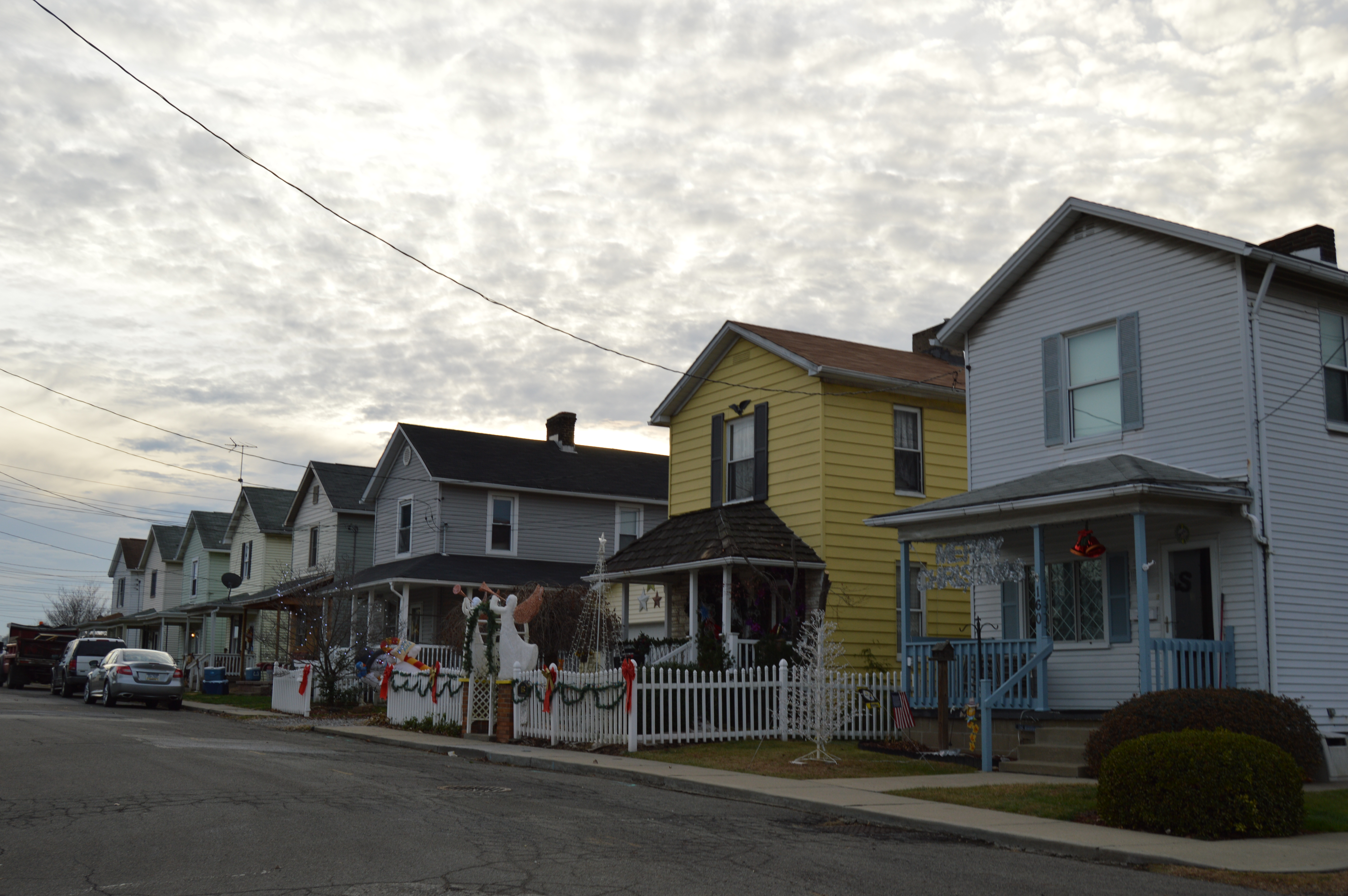 Houses on the western side of Foster Avenue south of the Fourth Street intersection in East Rochester, Pennsylvania, United States.